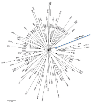 Infologs are independently designed synthetic genes derived from one or a few genes where substitutions are systematically incorporated to maximize information.